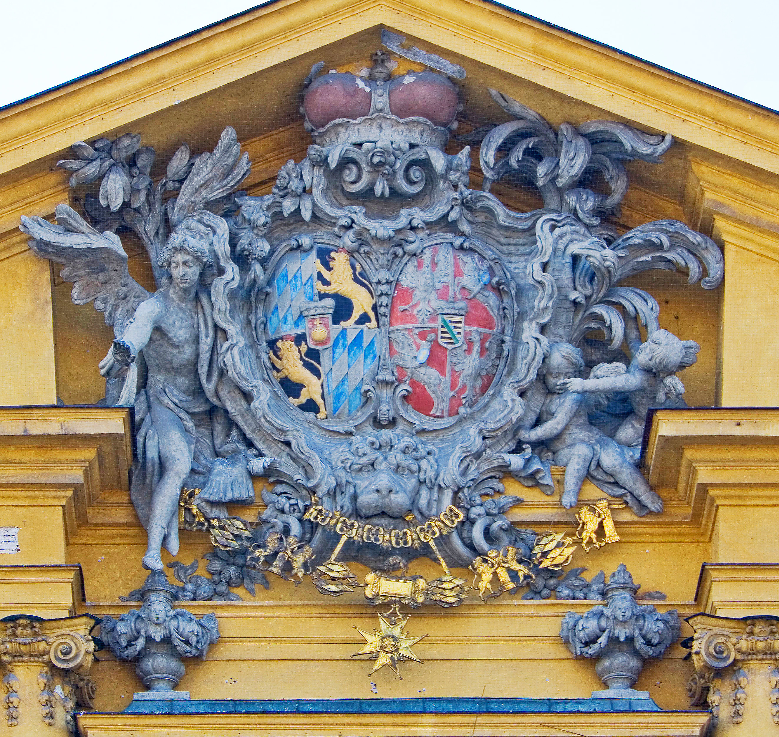 Theatinerkirche, Munich, Germany. The CoA of, left, Maximilian III Joseph, Elector of Bavaria, Archi Seneschal of the HRE, and right, the CoA of his wife, Maria Anna Sophia of Saxony, daughter of Augustus III of Poland, Elector of Saxony.